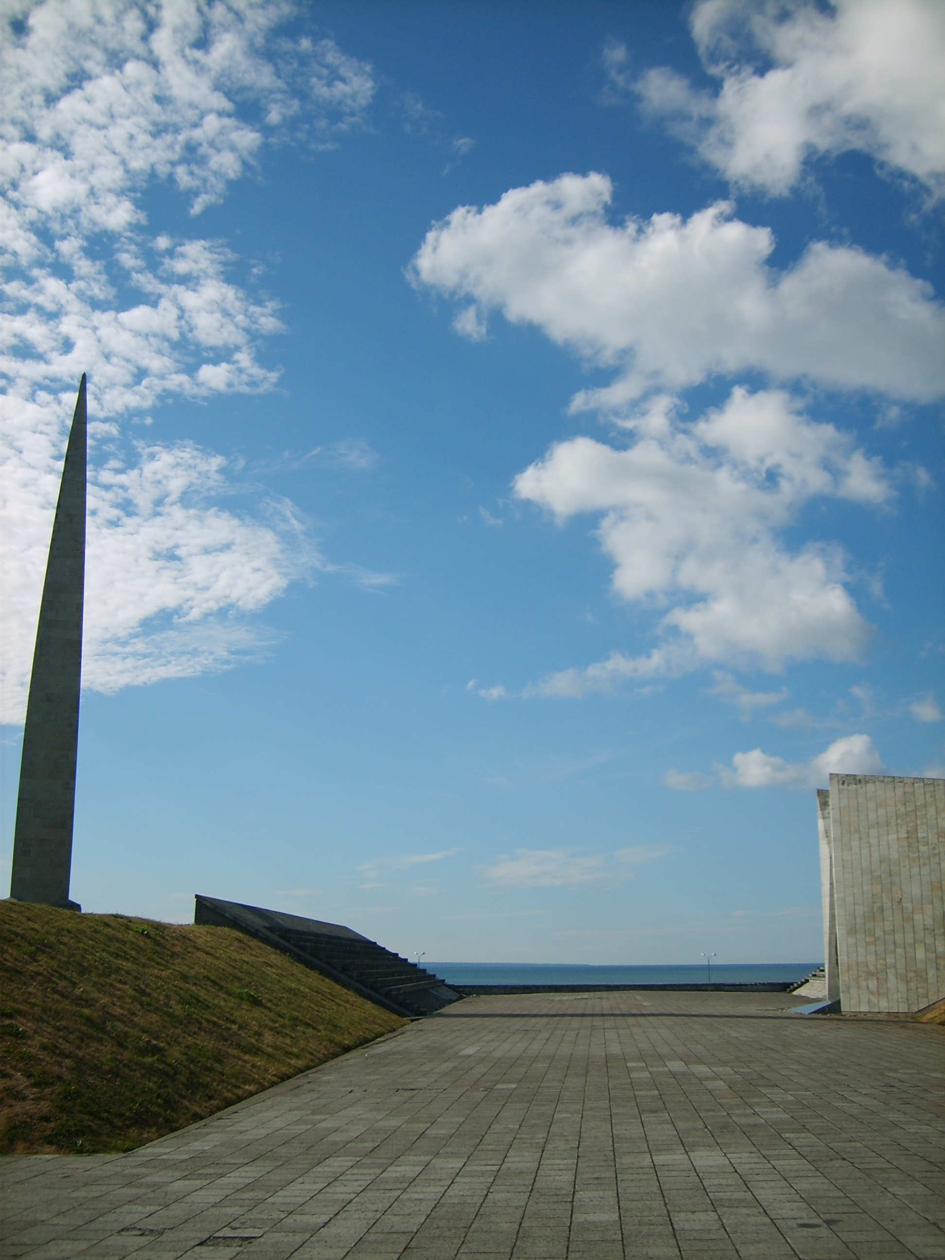 Own work - Joschek The Maarjamäe War Memorial in Tallinn